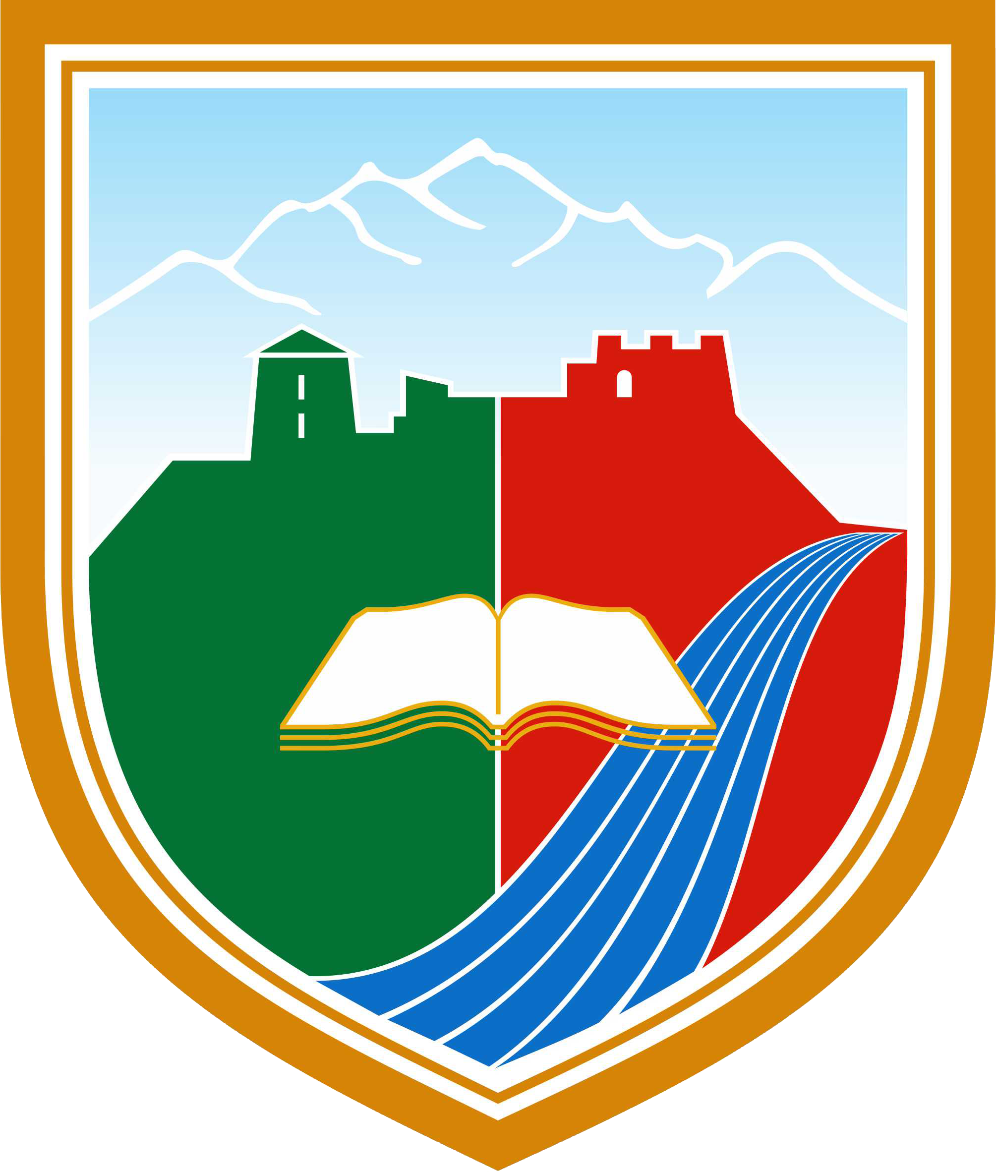 Travnik Municipality official coat of arms